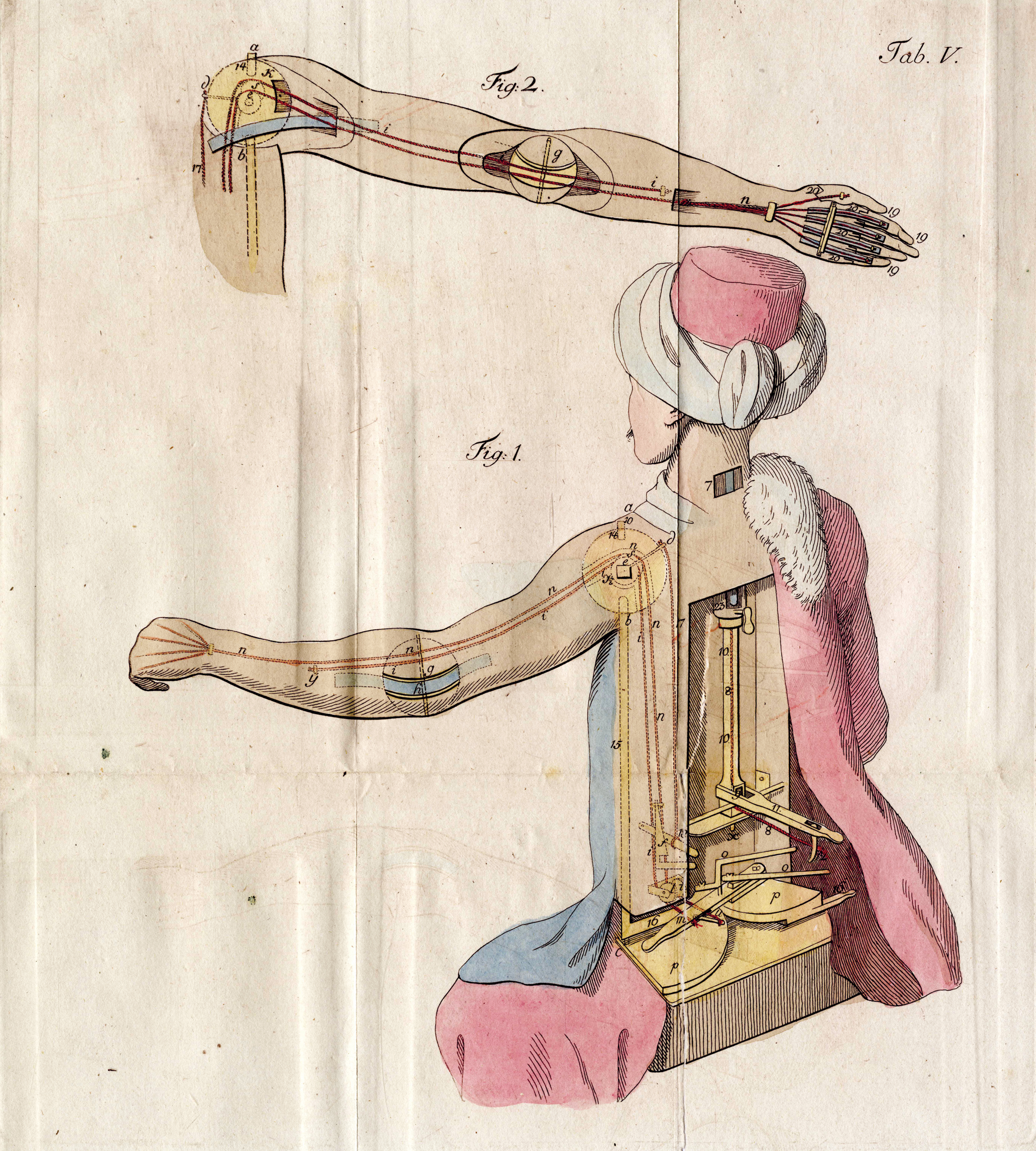 From book that tried to explain the illusions behind the Kempelen chess playing automaton (known as The Turk) after making reconstructions of the device.